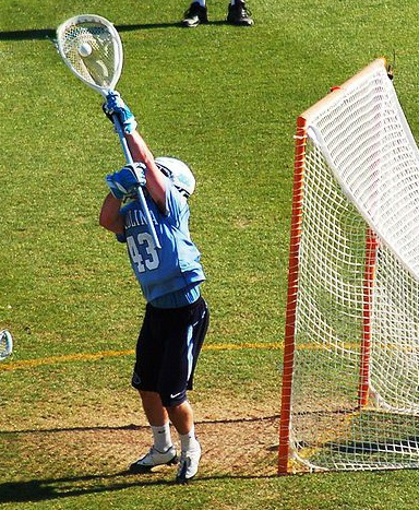 UNC Tar Heels men's lacrosse goalie making a save (cropped)